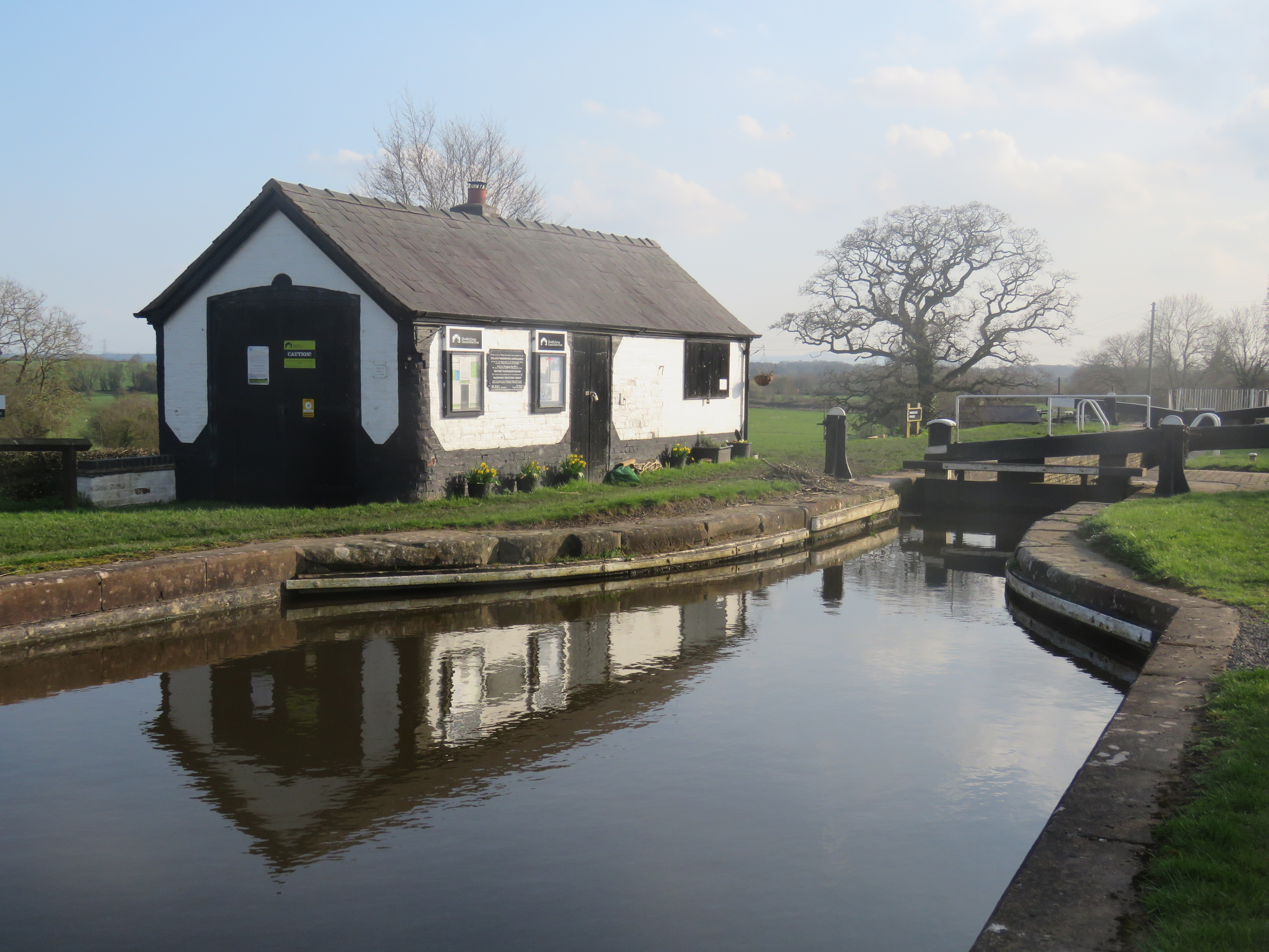 Frankton Lock, Montgomery Canal, Shropshire